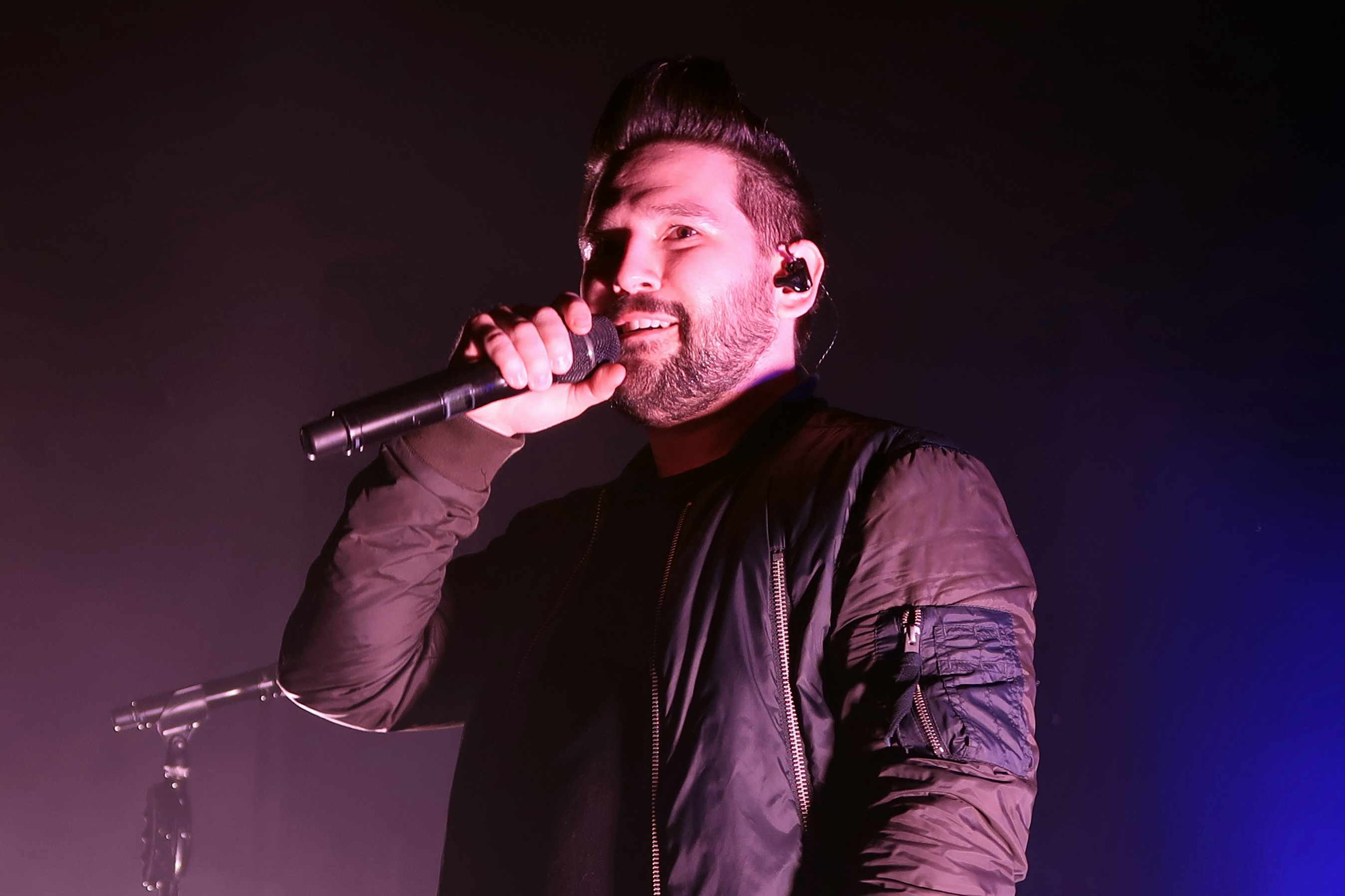 Shay Mooney of Dan + Shay in concert at the New Daisy Theatre in Memphis, TN, February 2017